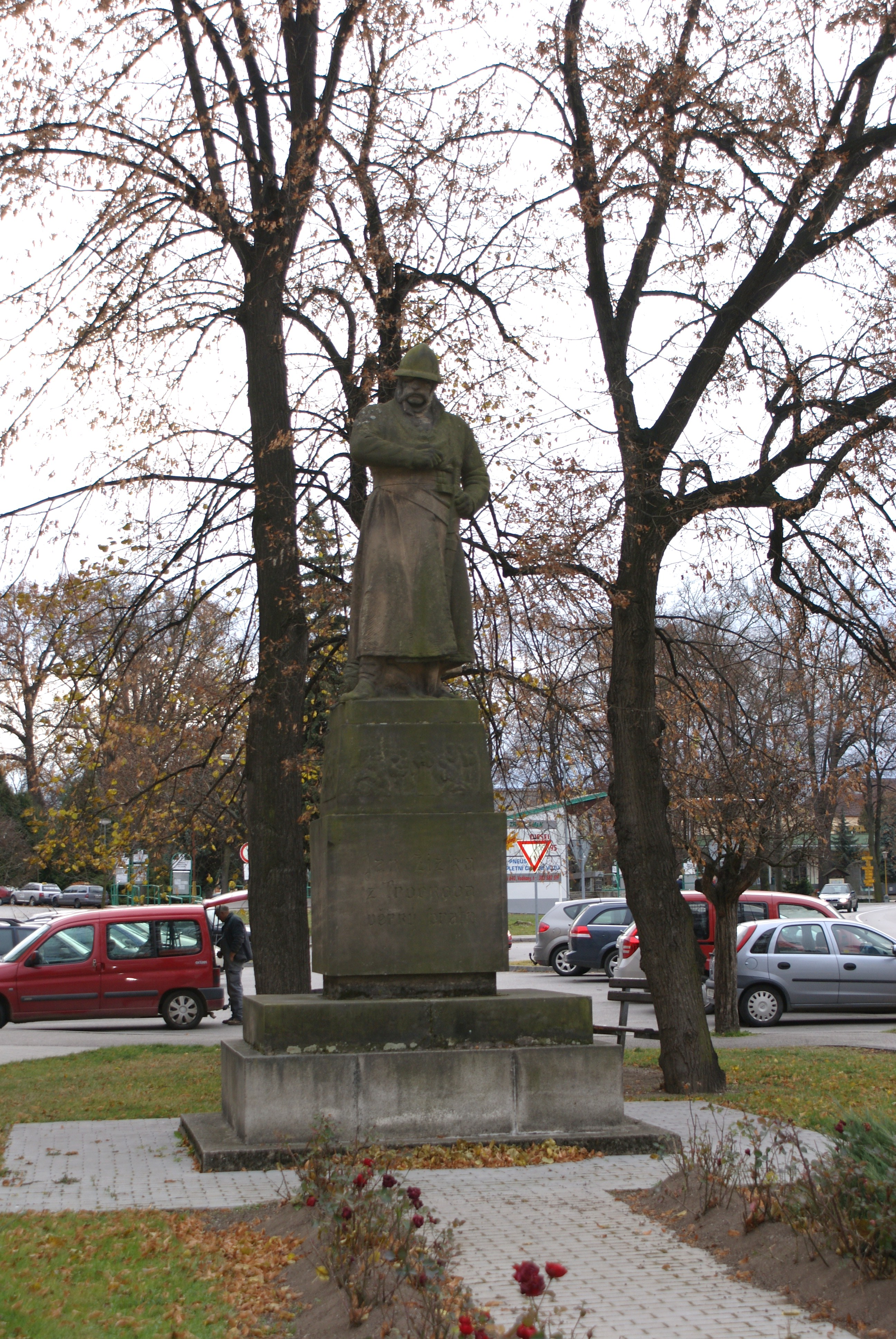 Vodňany, Strakonice district, Czechia, Jan Žižka memorial.